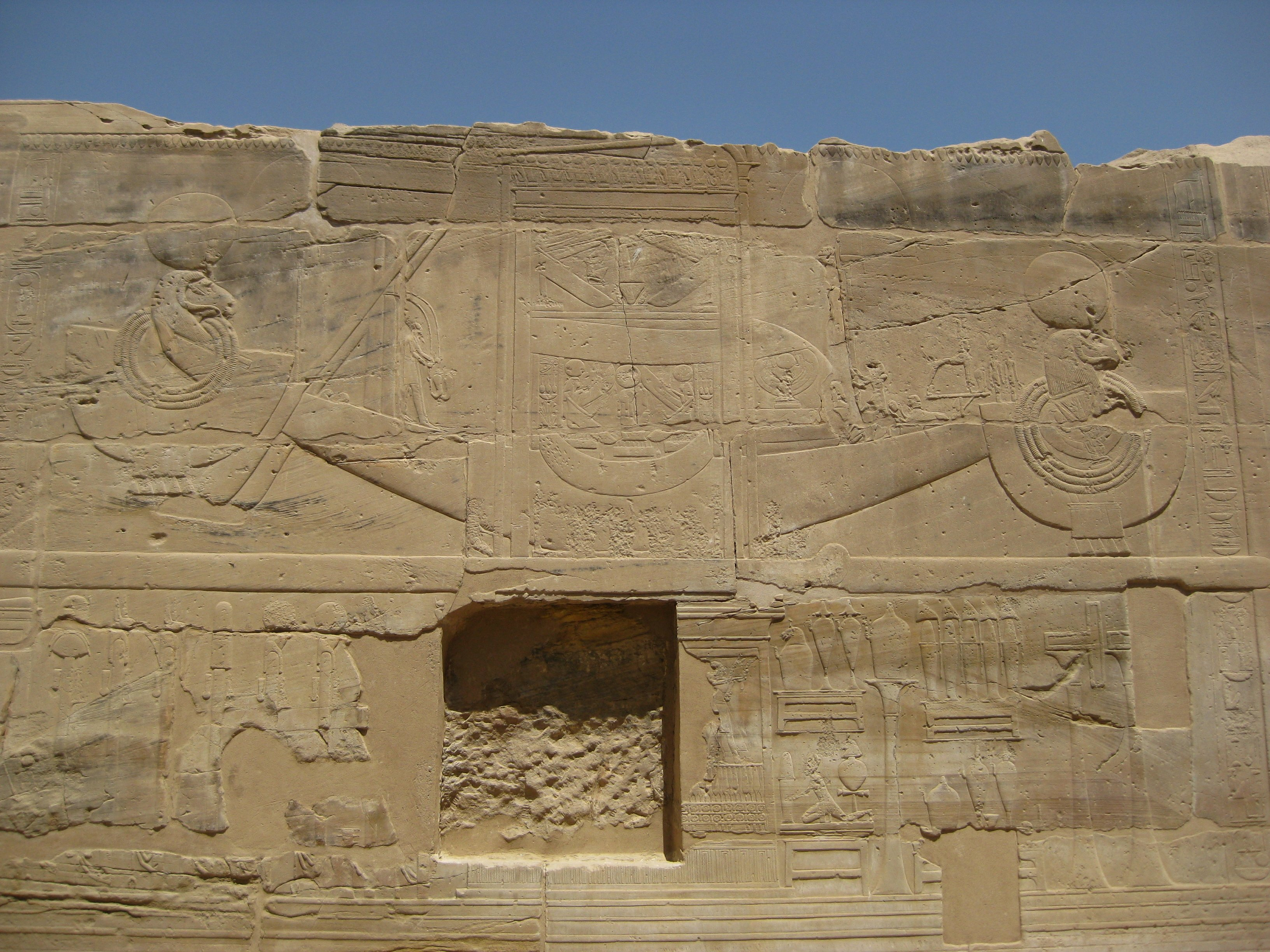 Temple of Seti I